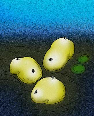 Reconstruction of the enigmatic Ediacaran organism, Yarnemia acidiformis, as a tunicate-like animal. From the White Sea, Russia